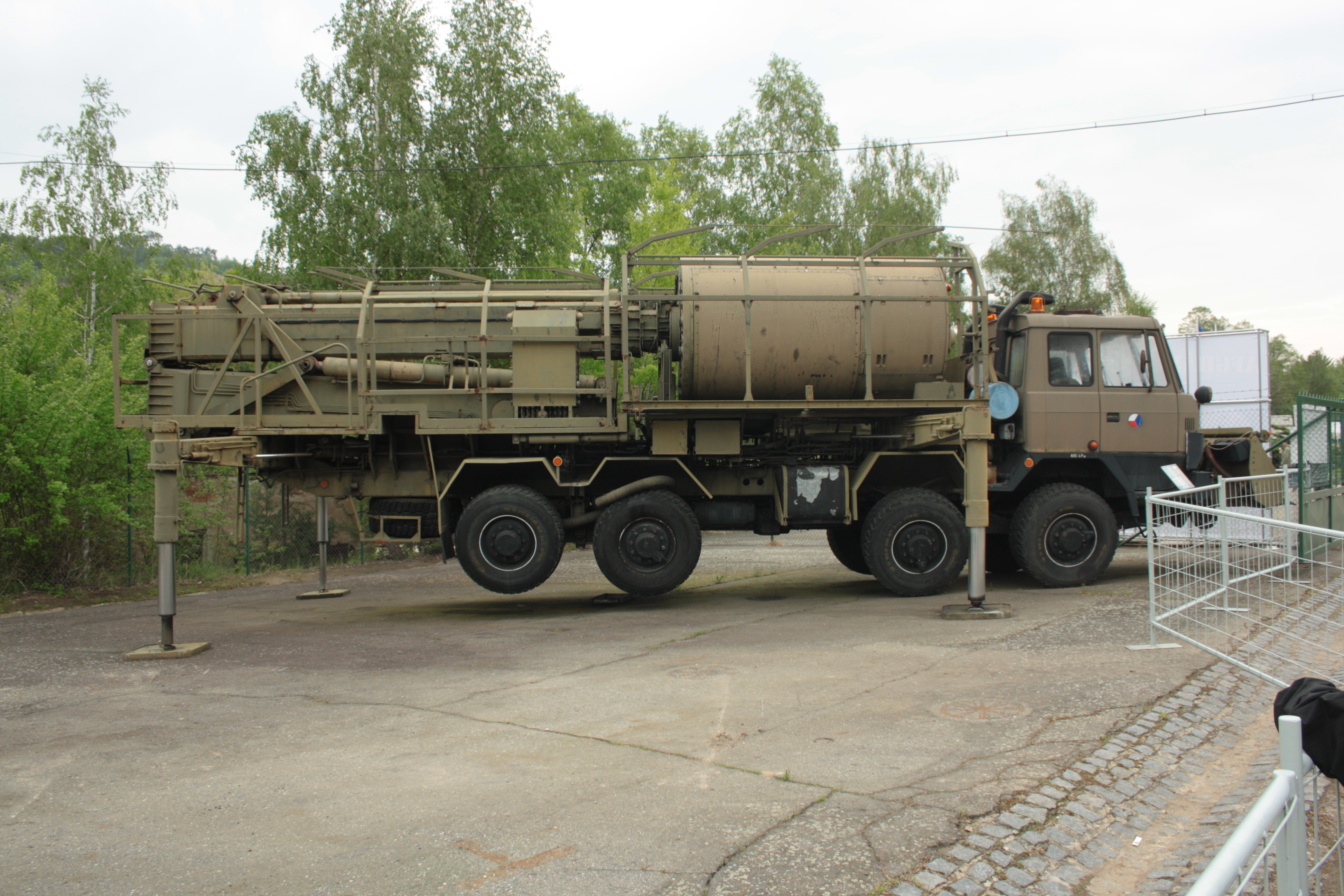 Antenna and transmitter mast of Tamara radiolocator placed on Tatra 815 truck in Lešany military museum, Central Bohemian Region, CZ This photograph was taken with a DSLR from WMCZ's Camera grant. This picture was taken and/or got within the scope of the 'Acquiring scientific and specialized pictures' grant.